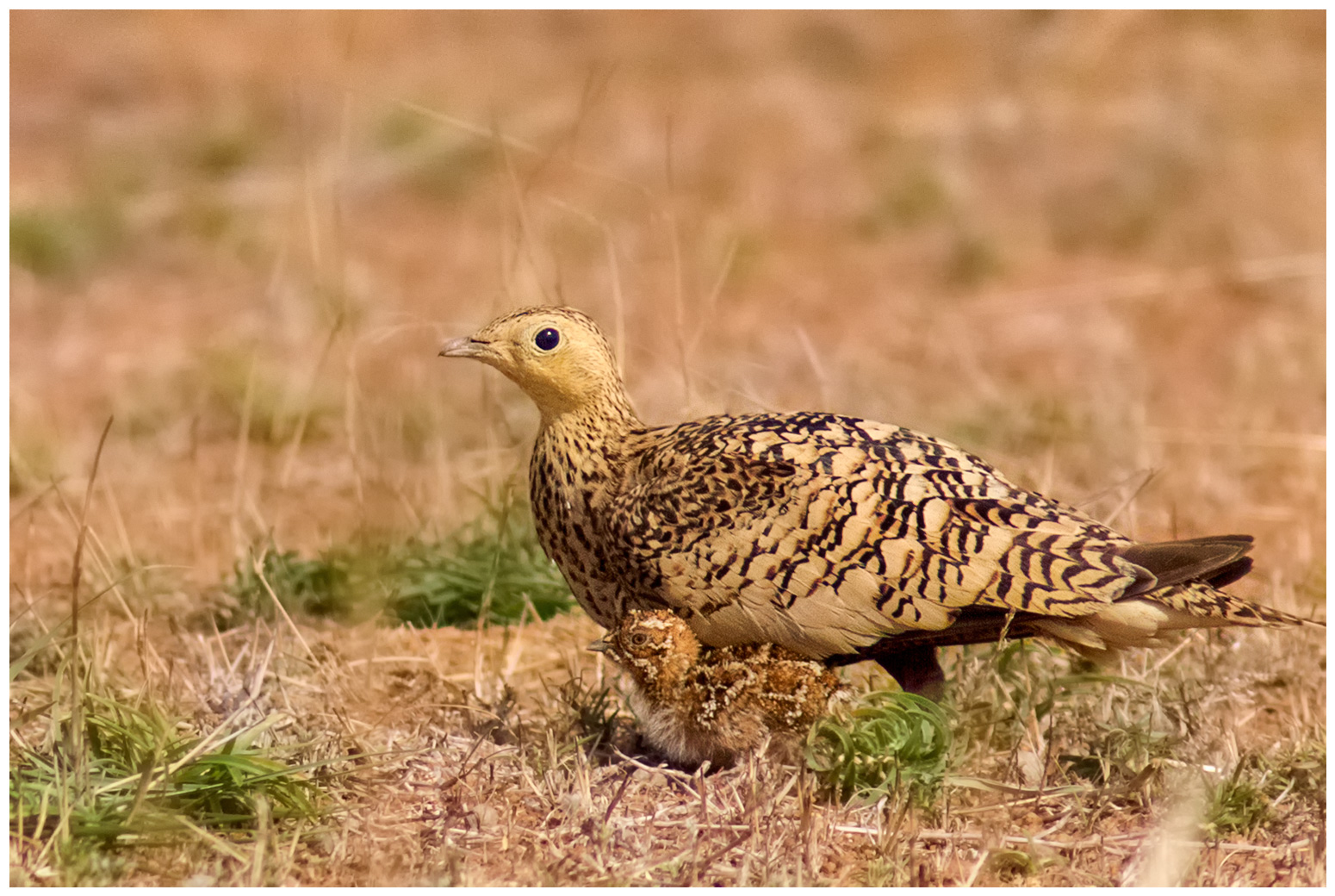 Chestnut bellied sandgrouse female with young fledgling, India